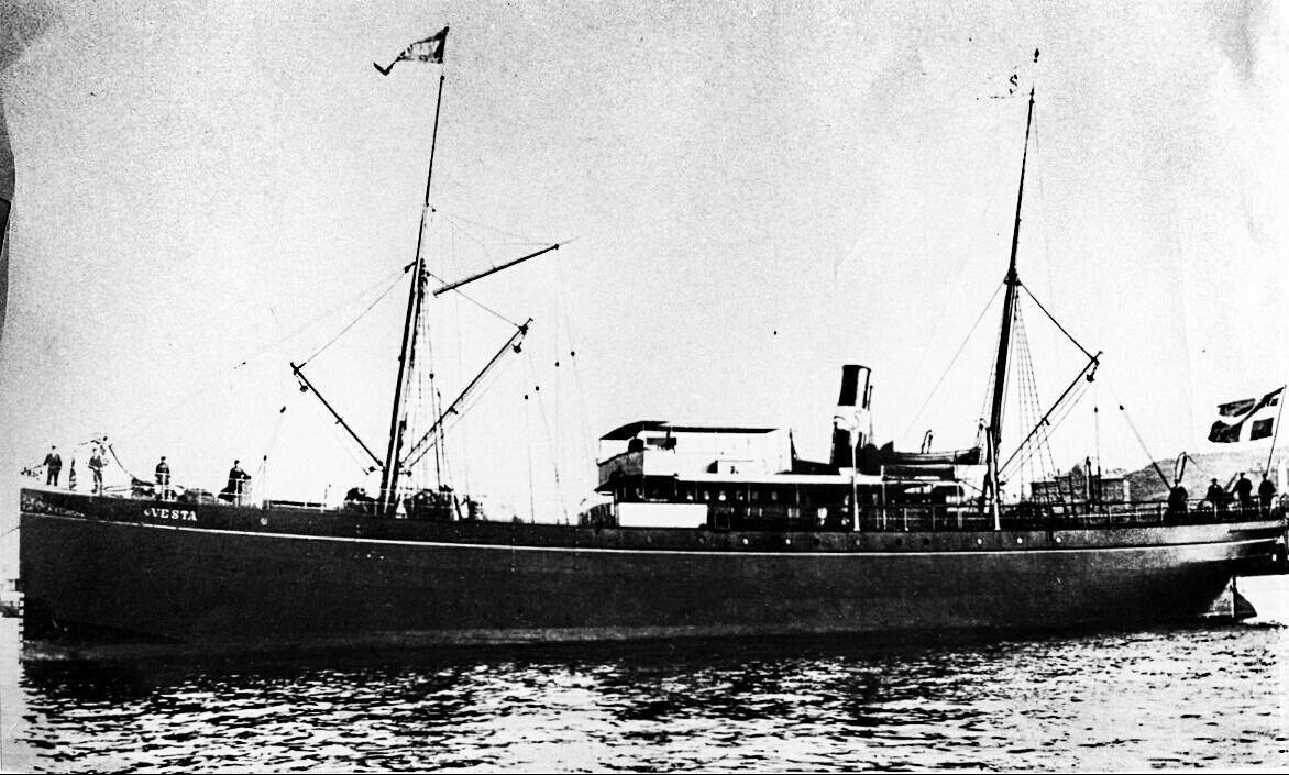 General cargo ship VESTA built at Schiffswerft von Henry Koch, Lübeck (yard № 12, launched: 11-06-1884, delivered: 1884), sunk by artillery fire in Ventspils 28-06-1915, raised and repaired in Szczecin 1916, broken up in Oskarshamn 1934/35.